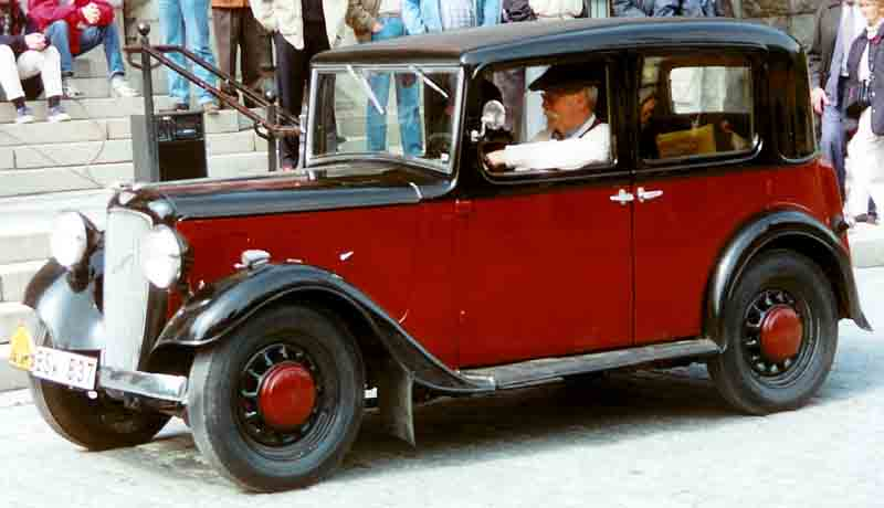 Austin 10/4 Lichfield 4-Door Saloon 1935